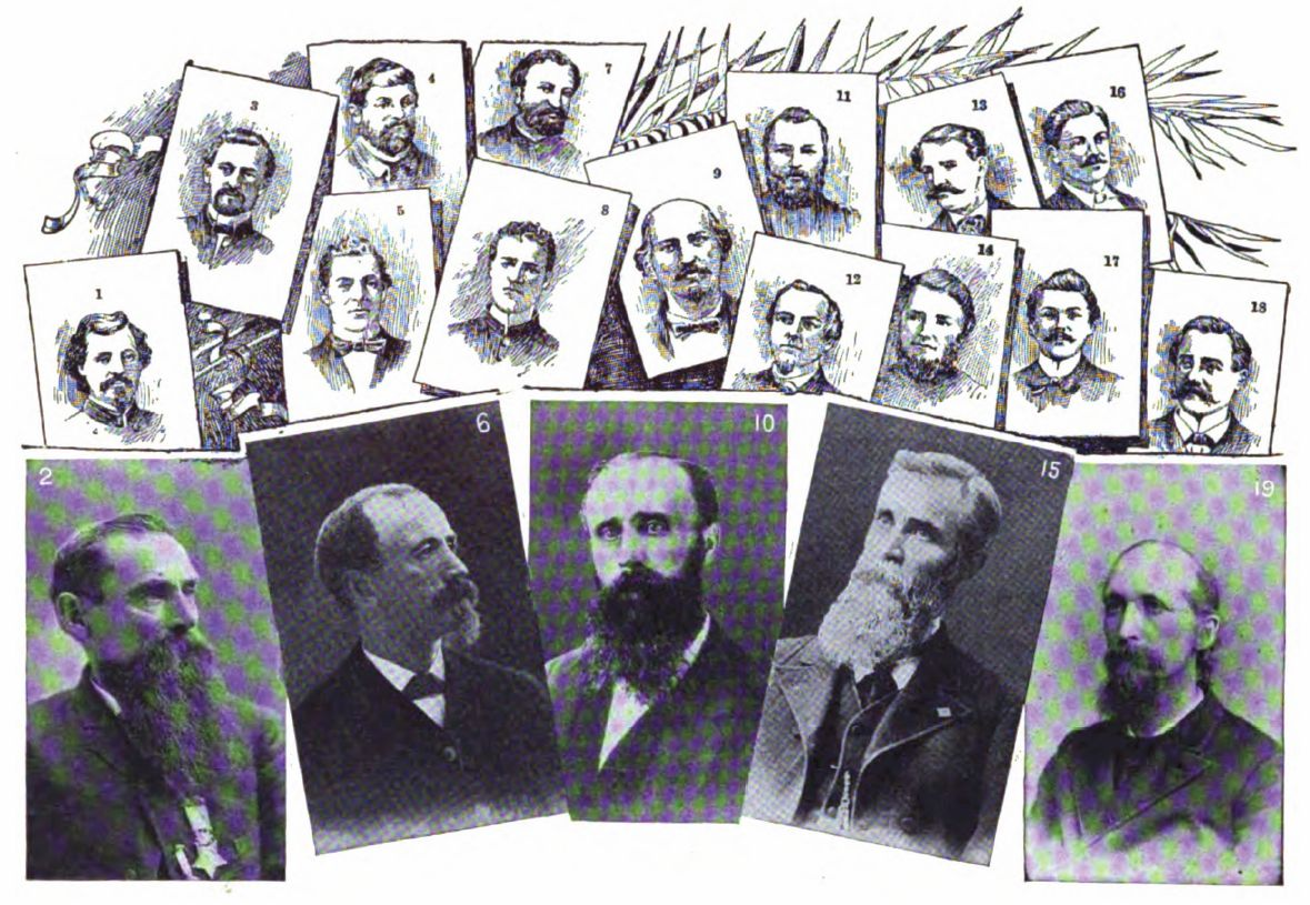 Participants the Great Locomotive Chase of the American Civil War. A party led by James J. Andrews (Andrews' Raiders) hijacked a Confederate train and navigated it northwards, chased by the train conductor. Several of the raiders became the first recipients of the Medal of Honor. Seven of the raiders (James J. Andrews, William Campbell, Samuel Llewellyn, Samuel Robertson, Perry Shadrack, James Smith, George D. Wilson) are not pictured. Mark Wood, Private, Company C, 21st Ohio Infantry William J. Knight, Private, Company E, 21st Ohio Infantry Daniel A. Dorsey, Corporal, Company H, 33rd Ohio Infantry Robert Buffum, Private, Company H, 21st Ohio Infantry John A. Wilson, Private, Company C, 21st Ohio Infantry William Bensinger, Private, Company G, 21st Ohio Infantry William Reddick, Corporal, Company B, 33rd Ohio Infantry John Wollam, Private, Company C, 33rd Ohio Infantry William A. Fuller, train conductor who chased the raiders Wilson W. Brown, Private, Company F, 21st Ohio Infantry Samuel Slavens, Private, Company E, 33rd Ohio Infantry Elihu H. Mason, Sergeant, Company K, 21st Ohio Infantry Martin J. Hawkins, Corporal, Company A, 33rd Ohio Infantry Marian (or Marion) A. Ross, Sergeant Major, 2nd Ohio Infantry John R. Porter, Private, Company G, 21st Ohio Infantry Jacob Parrott, Private, Company K, 33rd Ohio Infantry John M. Scott, Sergeant, Company F, 21st Ohio Infantry Andrew Murphy, train machinist who chased the raiders William Pittinger, Sergeant Major, 21st Ohio Infantry